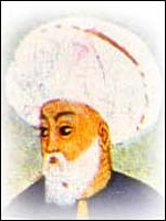 Source URL